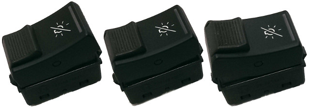 Three-way rocker switch for Blackout, Convoy and Normal mode.